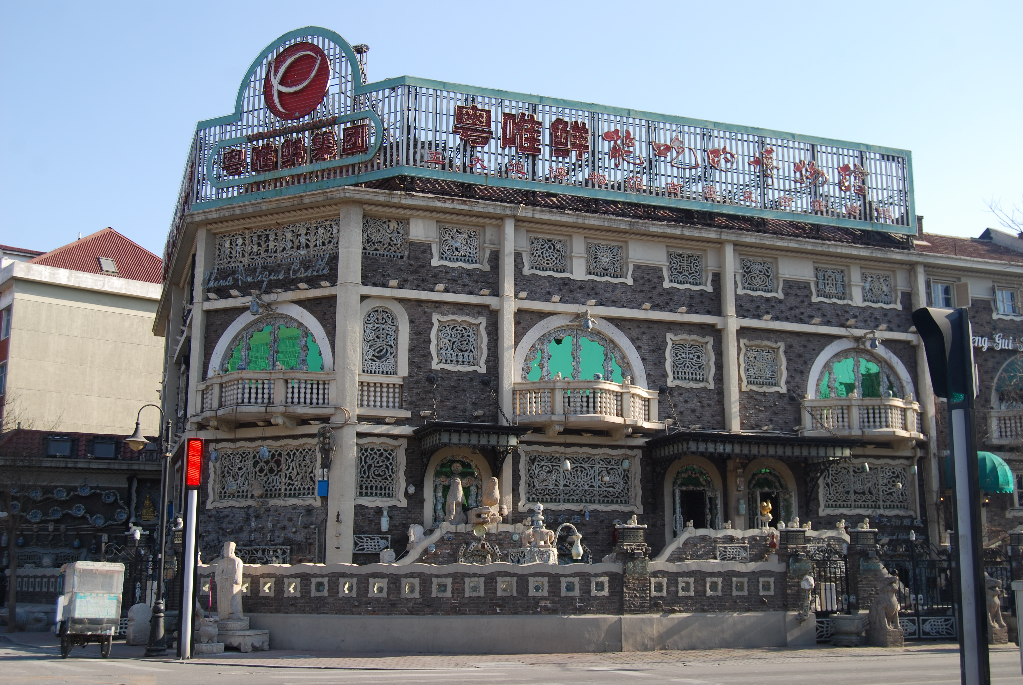 Gedalou (疙瘩楼) in Hebei Lu No. 285–293, Heping District, Tianjin